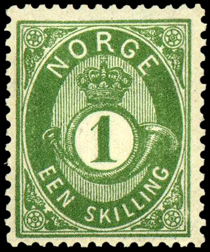 Stamp of Norway "Posthorn", 1 skilling, 1872